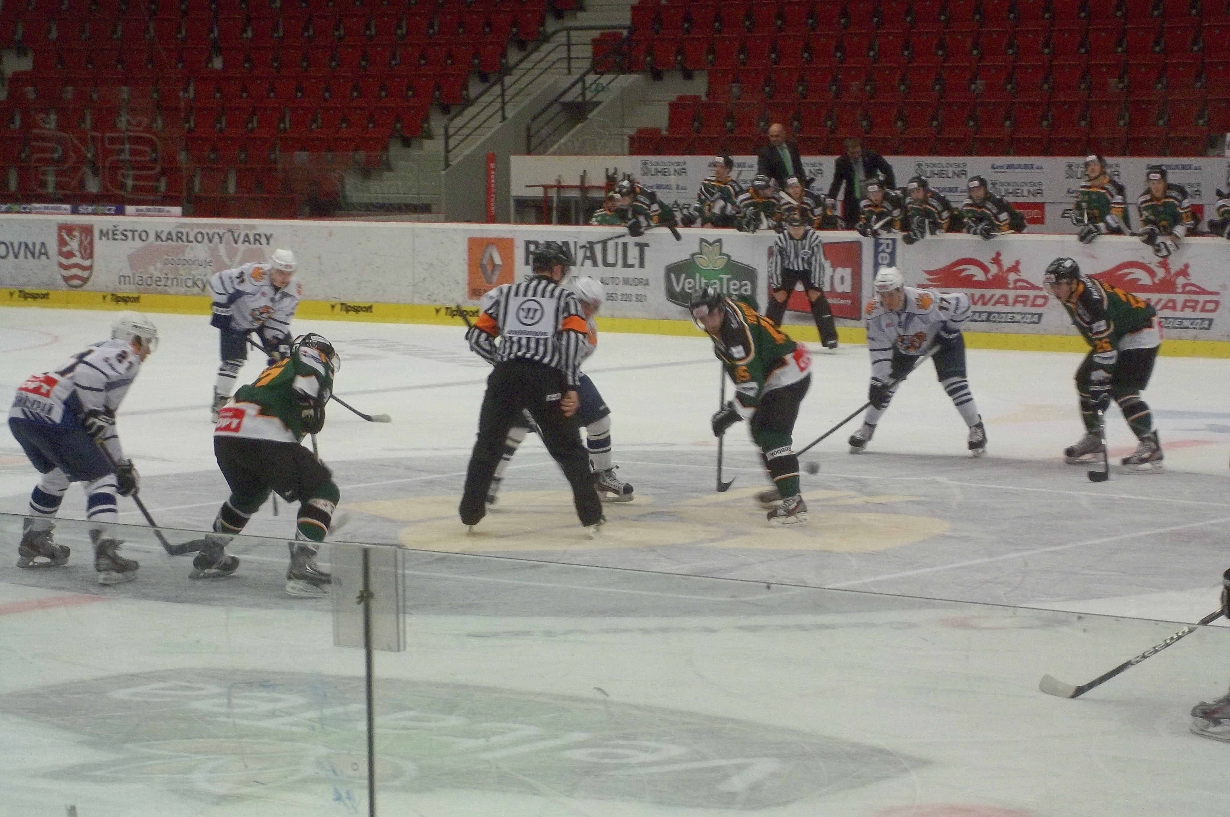 Faceoff from the Russian Junior Hockey League match between HC Energie Karlovy Vary and Amurskie Tigry Khabarovsk